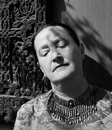 Armenian painter Mariam Aslamazian